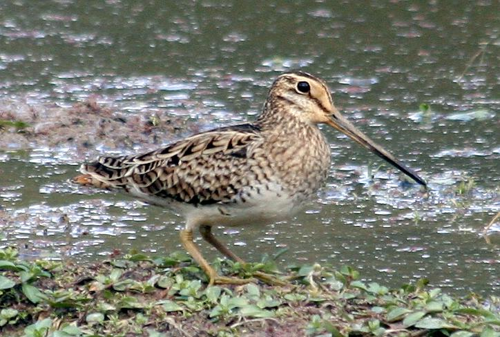 Latham's Snipe taken in Victoria, Australia